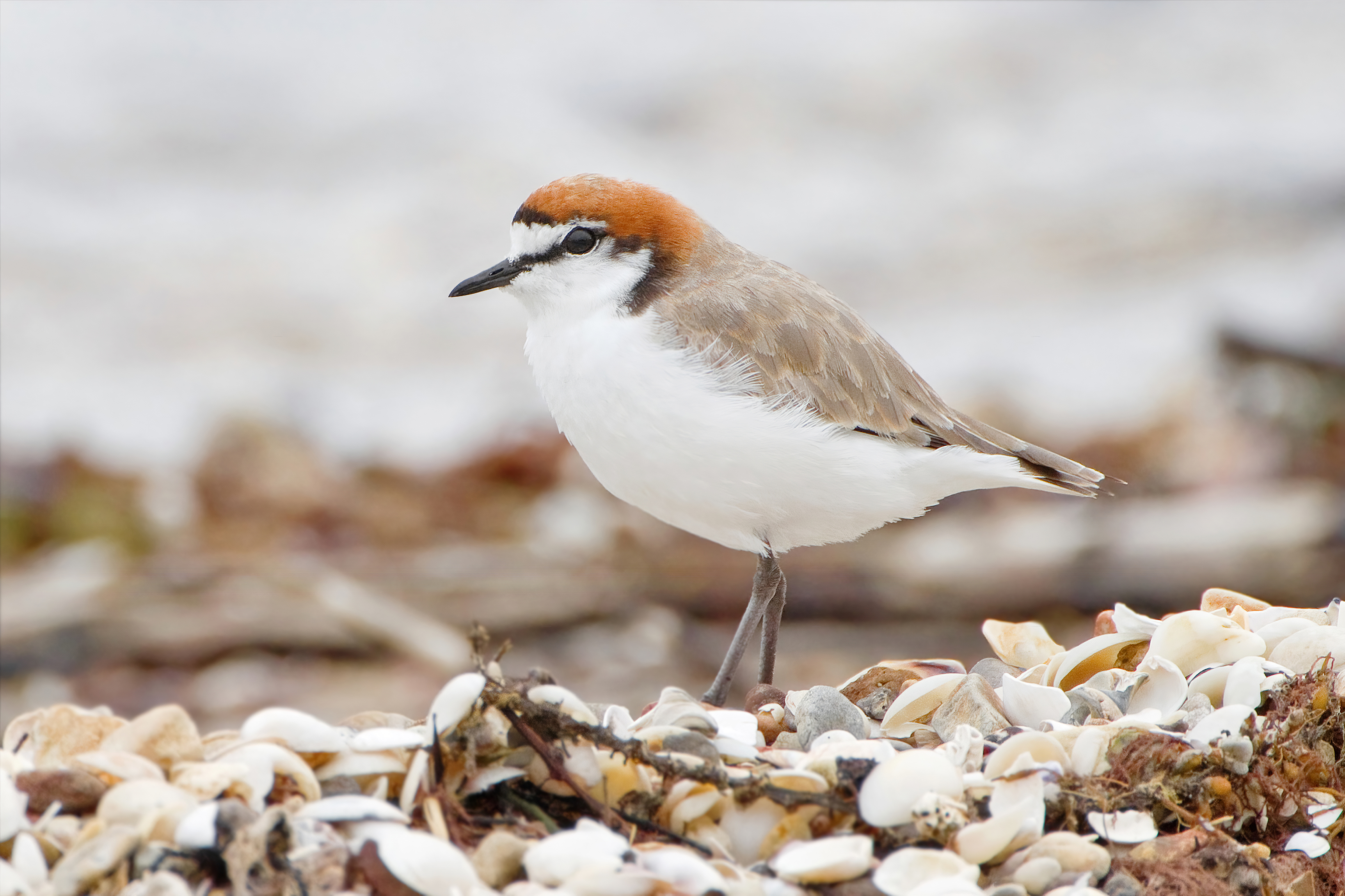 Red-capped Plover (Charadrius ruficapillus), Breeding Plumage, Ralph's Bay, Tasmania, Australia